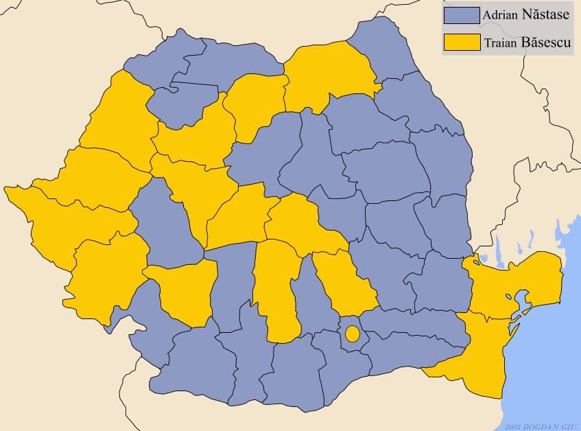 Orange for Traian Basescu. Blue for Adrian Nastase. Grey for yet unknown (will edit later)